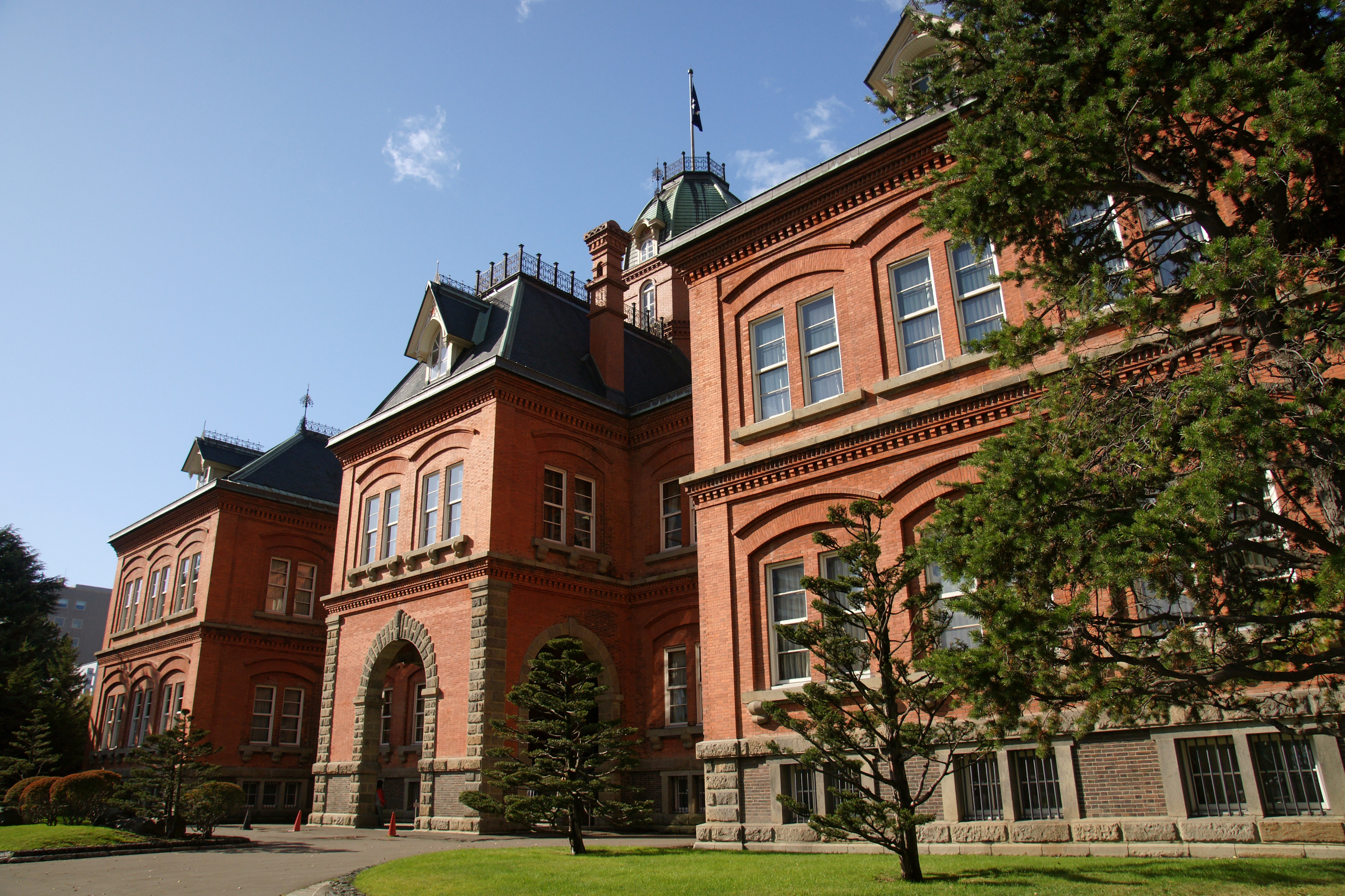 Former Hokkaido Prefectural Office Building in Sapporo, Hokkaido prefecture, Japan